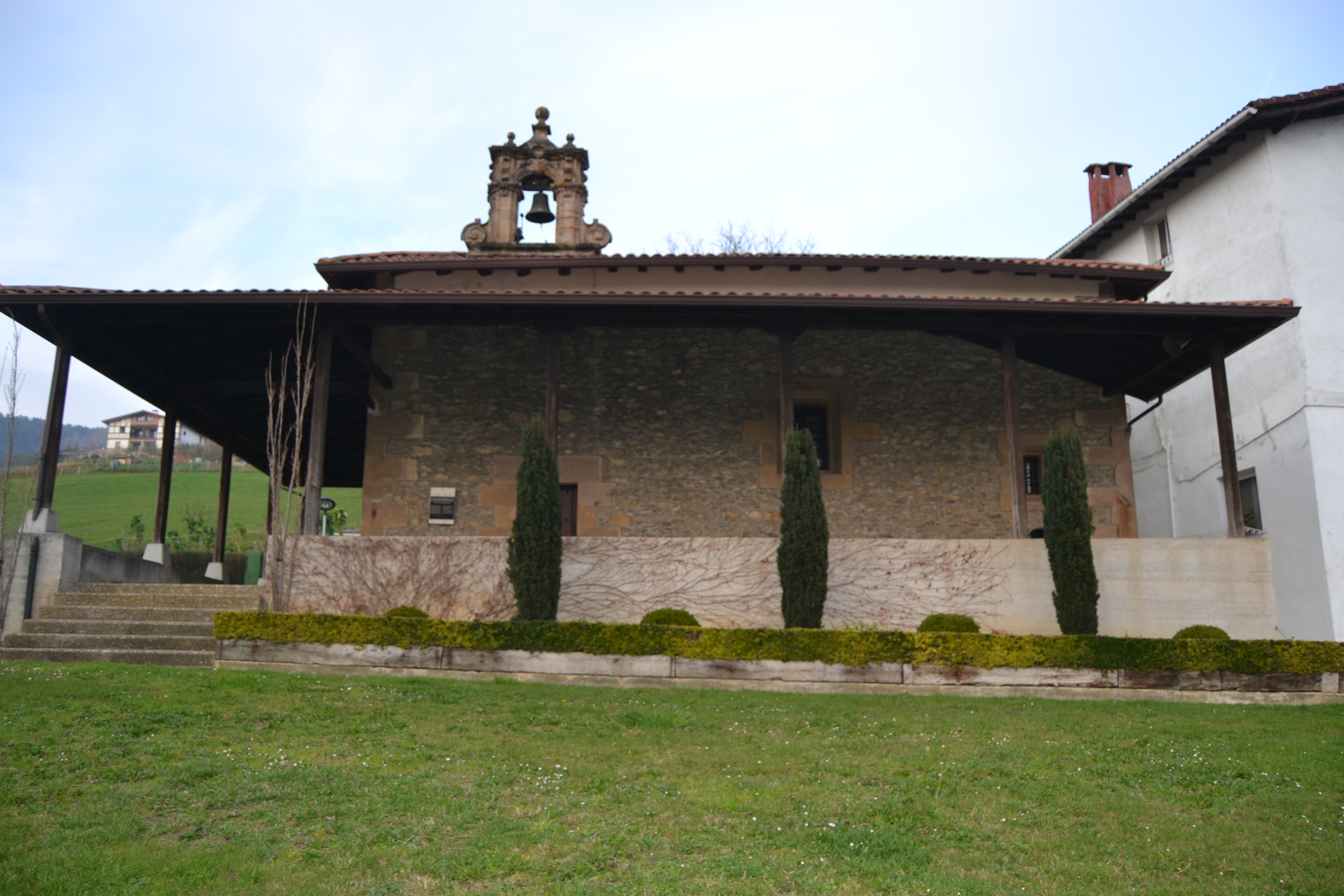 Hermitage of Our Lady of Loinatz. Beasain, Gipuzkoa, Basque Country.